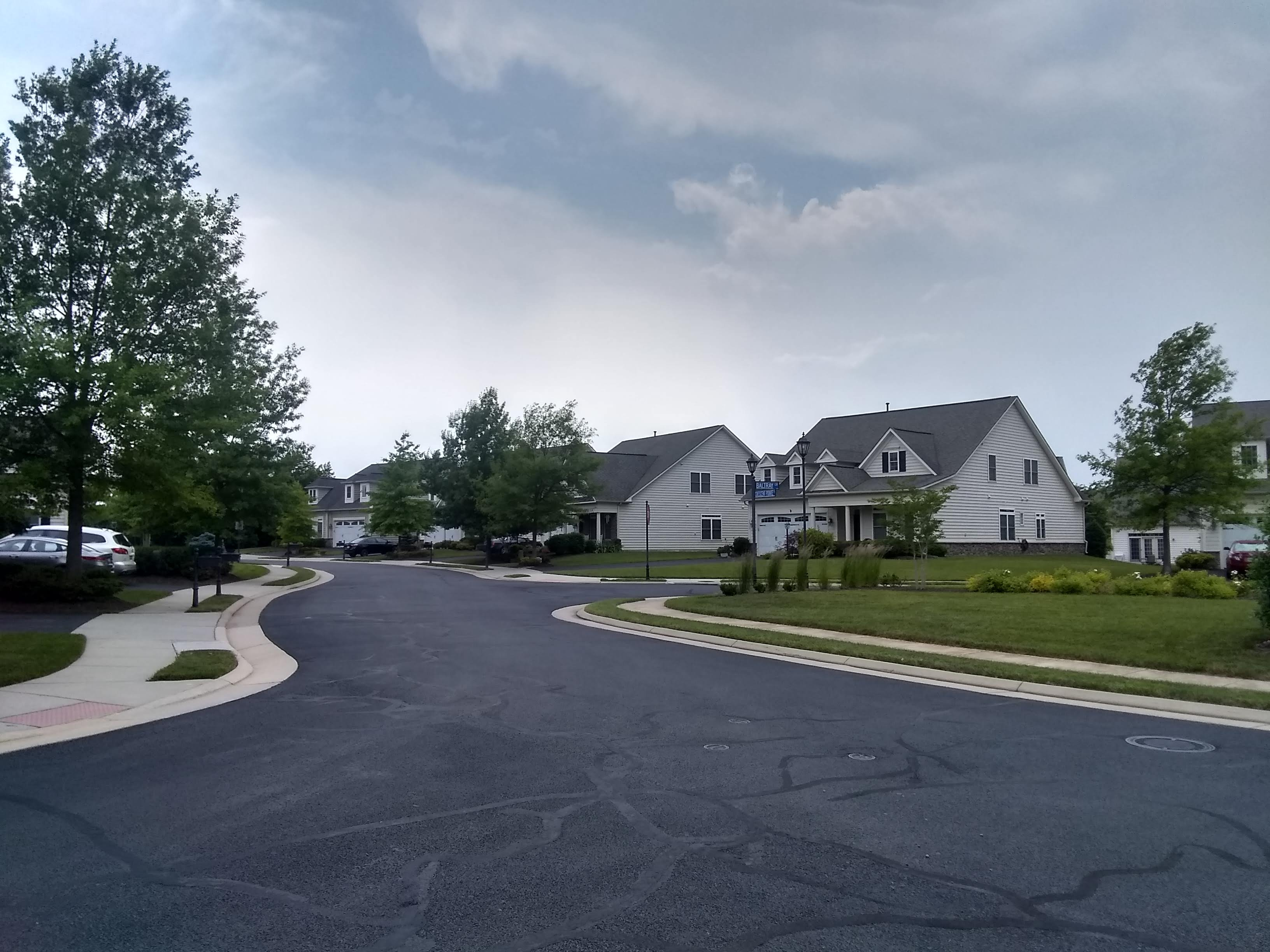 A street in the Potomac Green community in Virginia